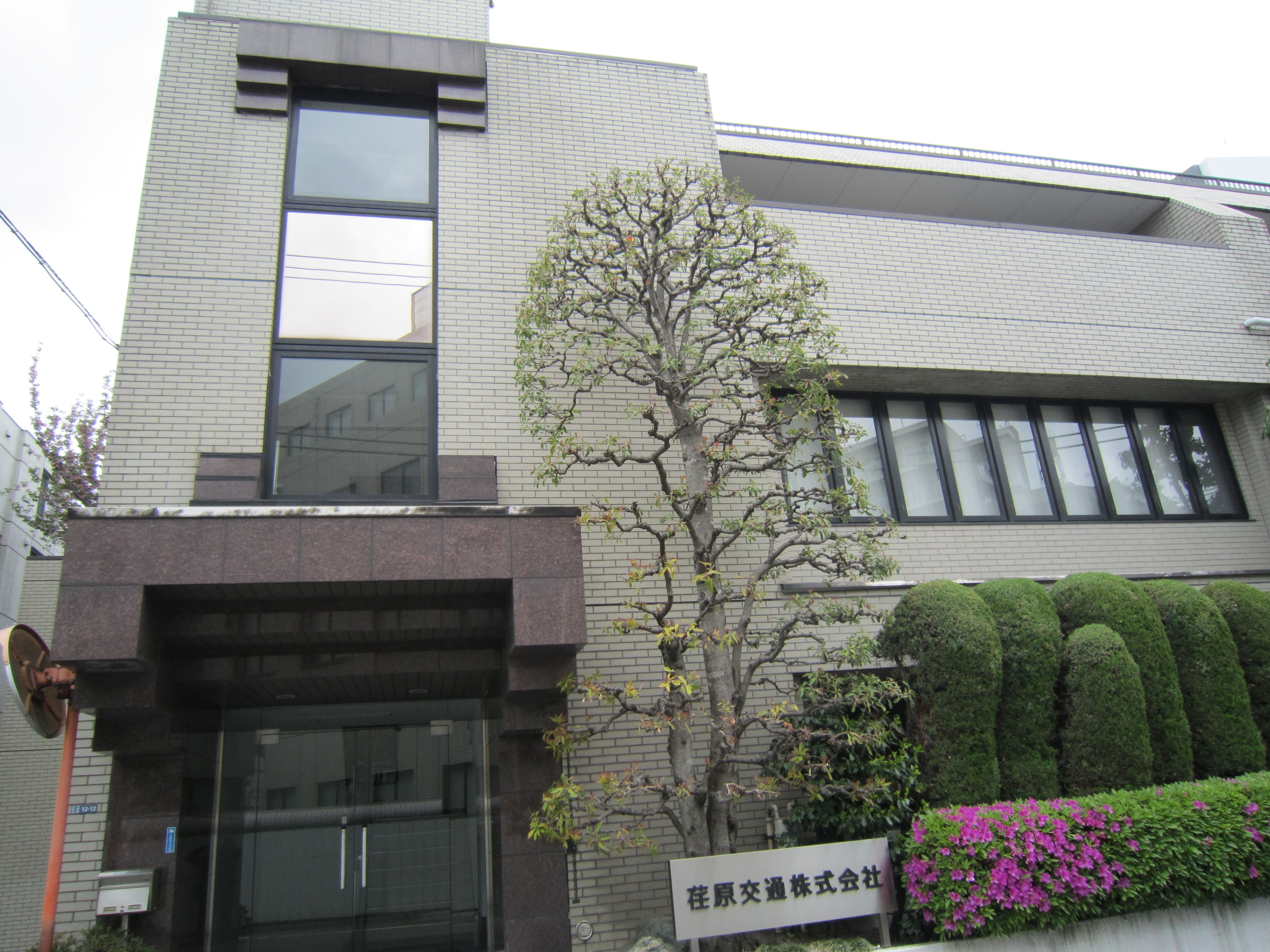 Main office of Ebara Kotsu